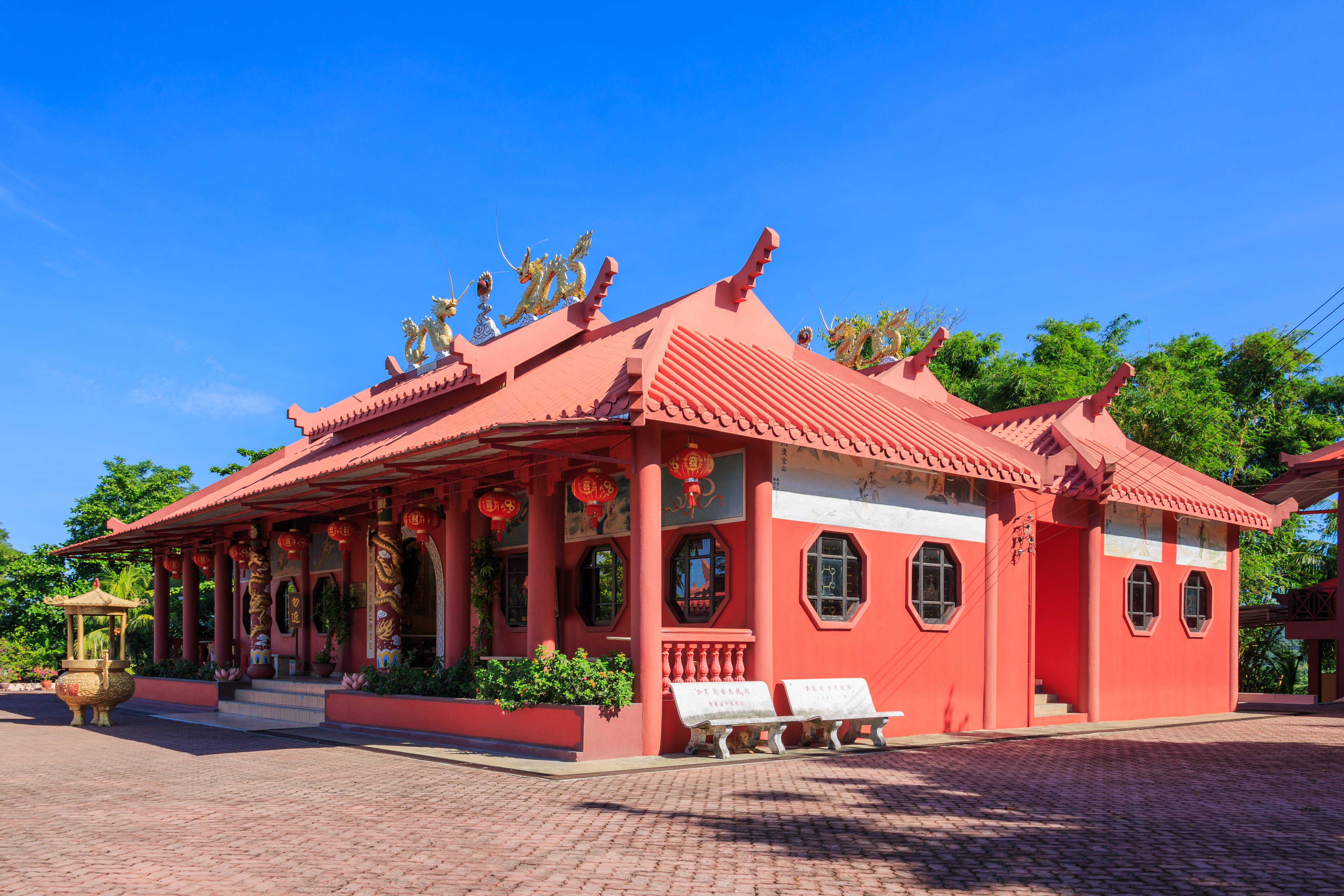 Lahad Datu, Sabah: Guan Yin Temple.